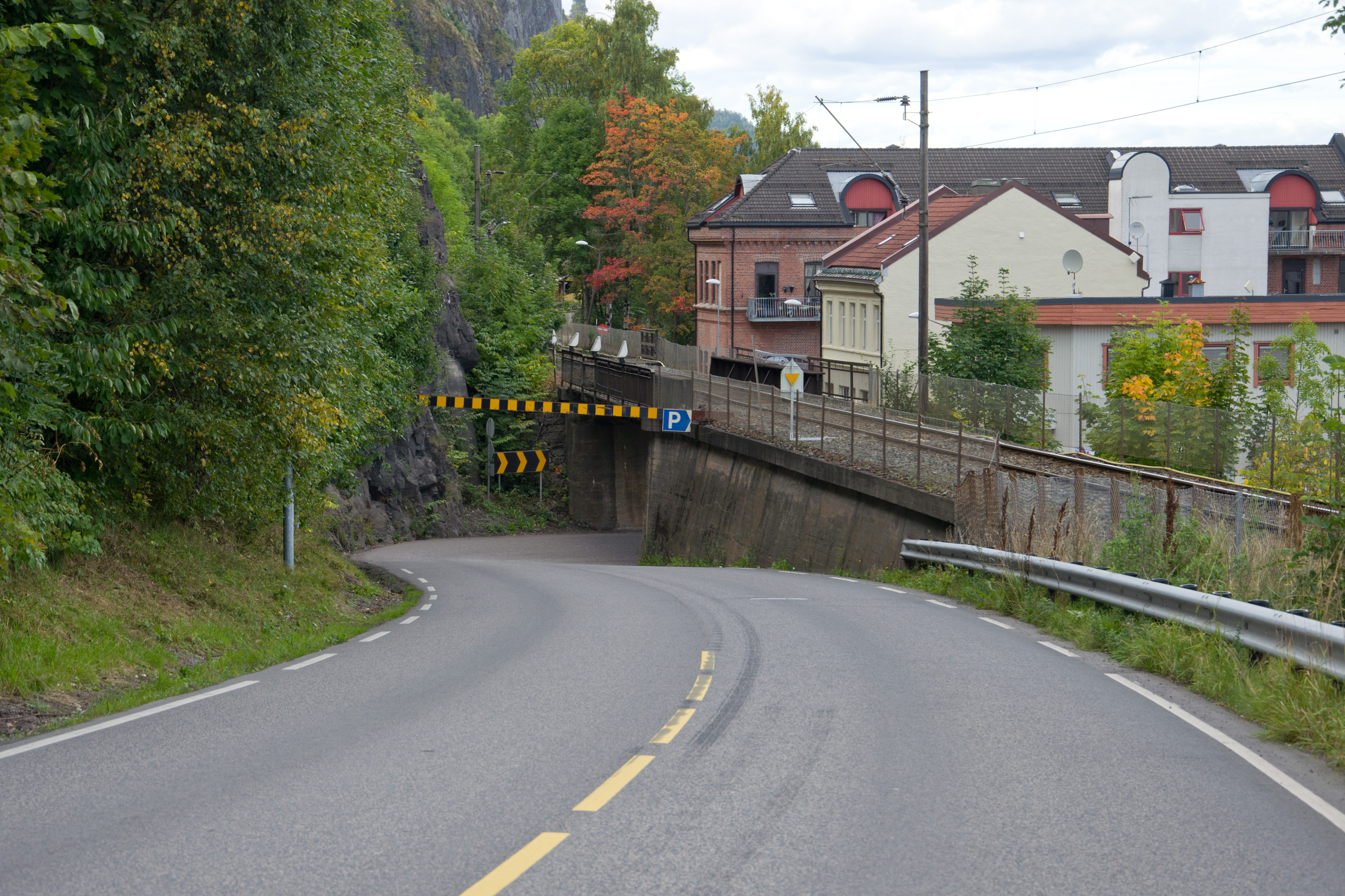 The Vestfold Line runs over the County Road 315 "Nyveien" in Holmestrand, Vestfold, Norway